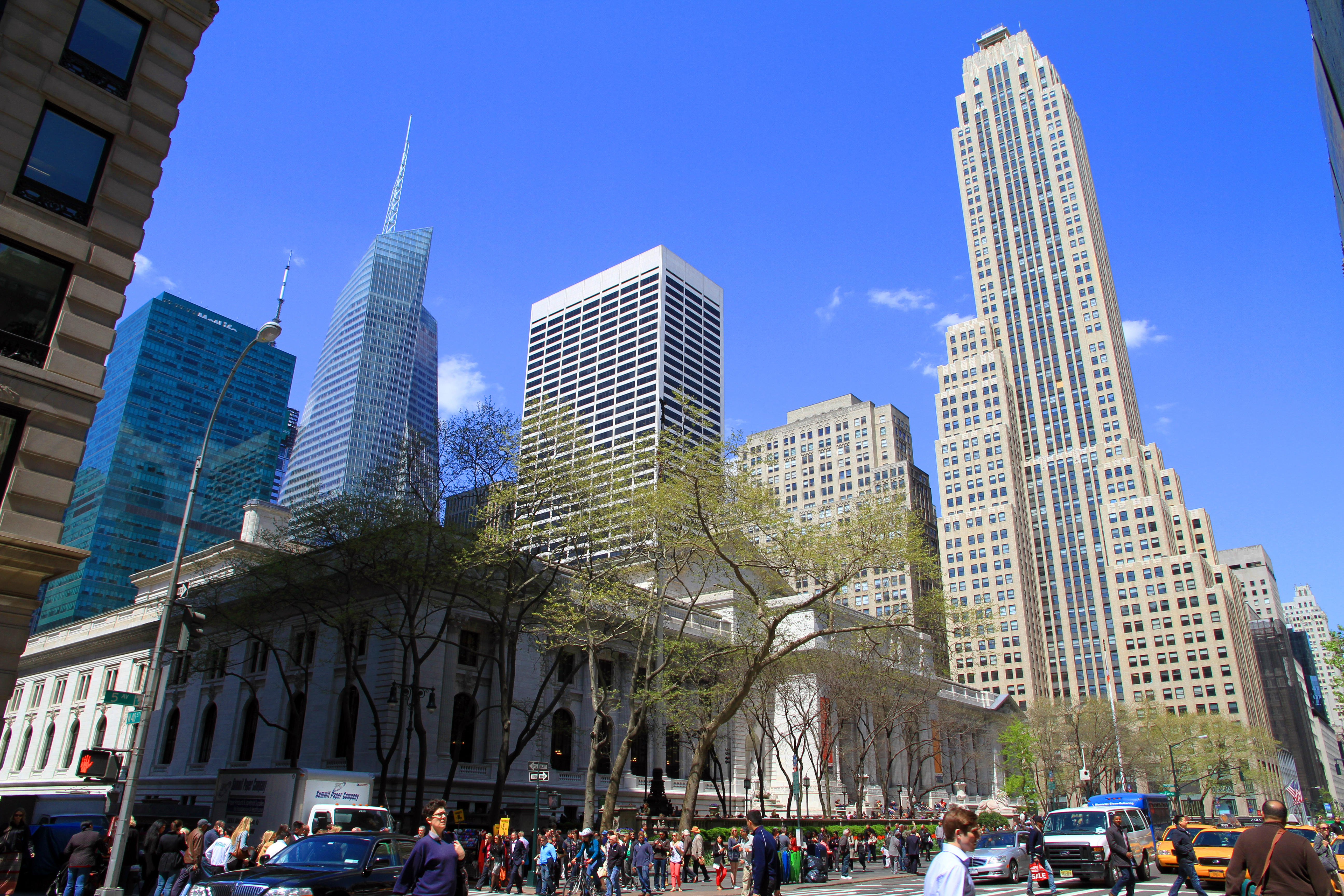 Fifth Avenue, 2013